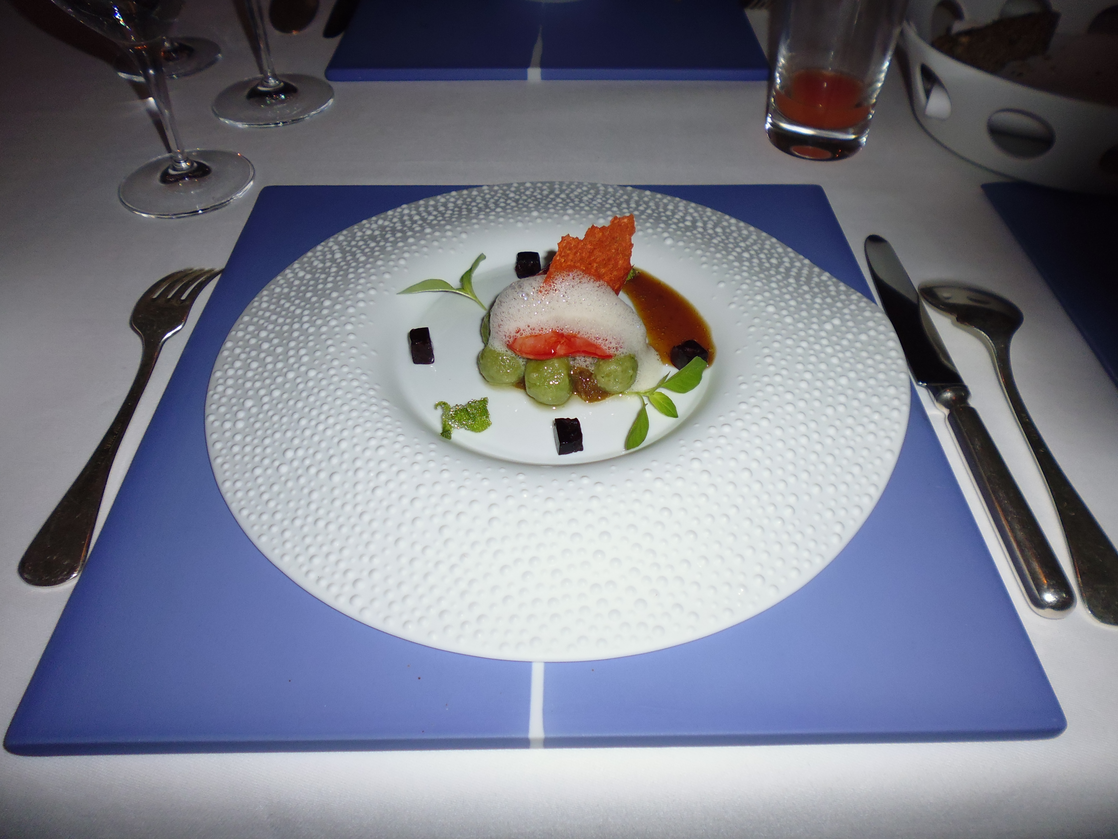 Carabinieros with Olive and Gnocchis